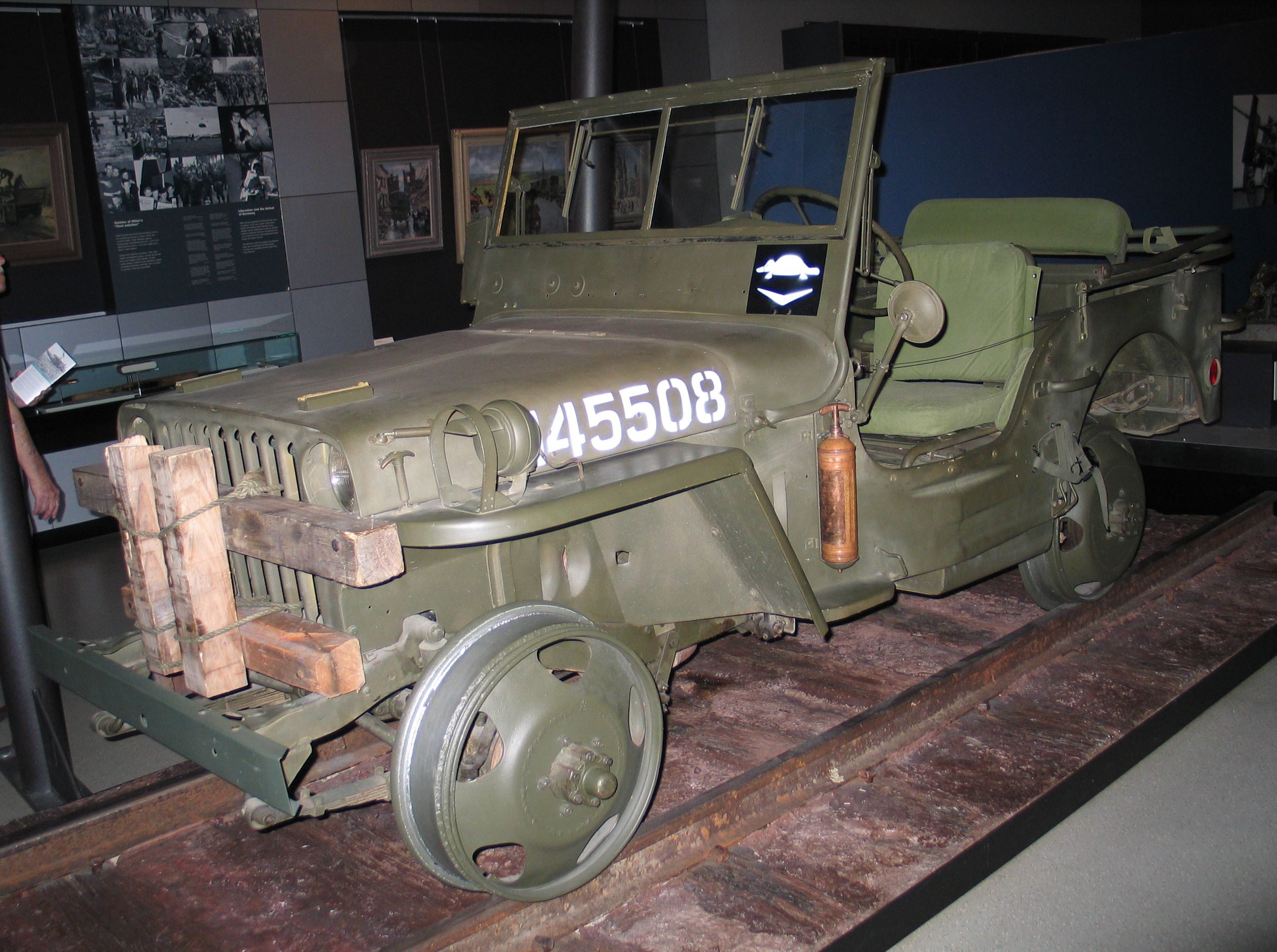 Willys MB / Ford GPW jeep adapted to run on railway tracks, in Australian War Memorial, Canberra, Australia.